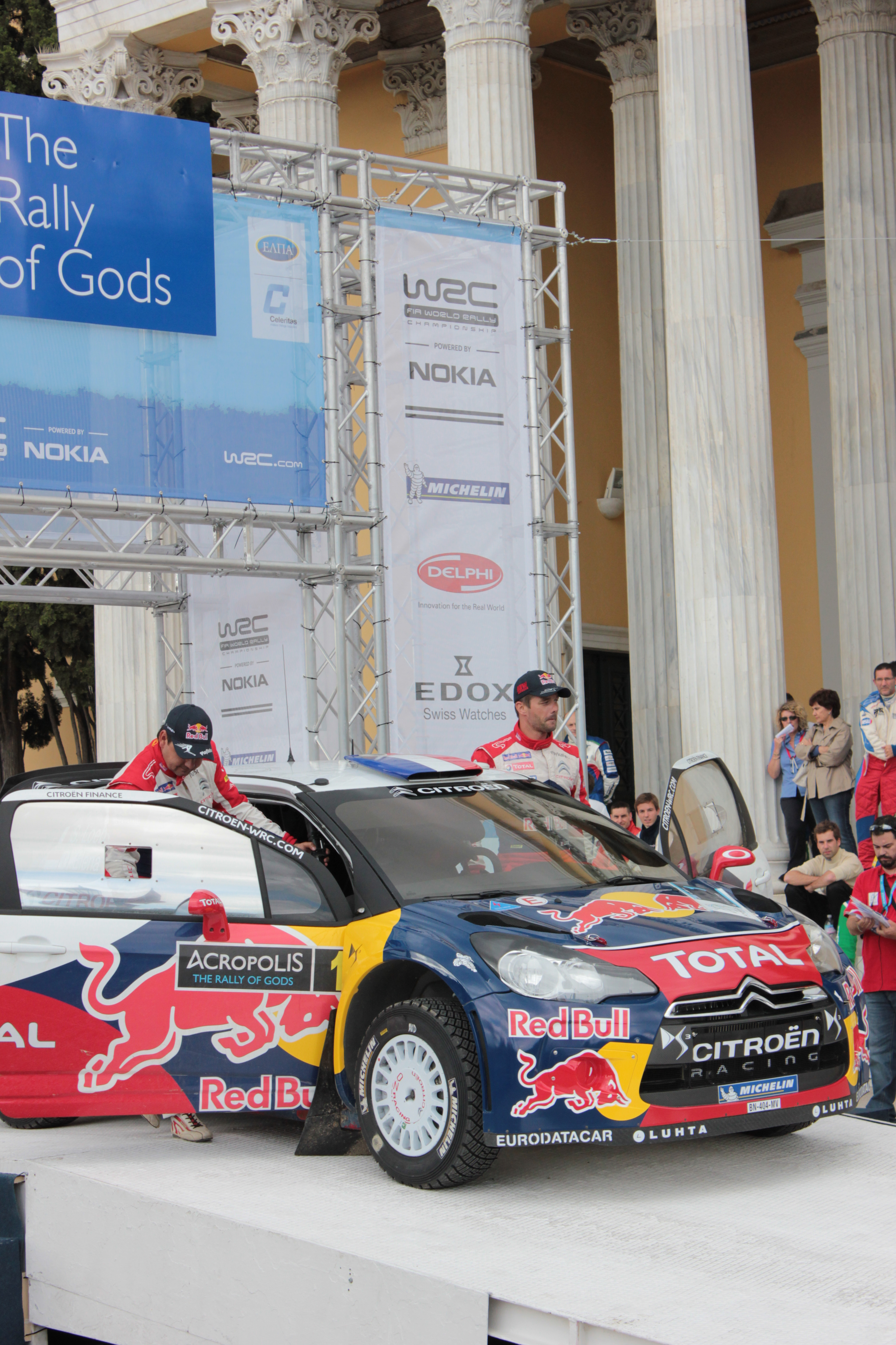 Sébastien Loeb and Daniel Elena during opening ceremony at 2012 Acropolis Rally